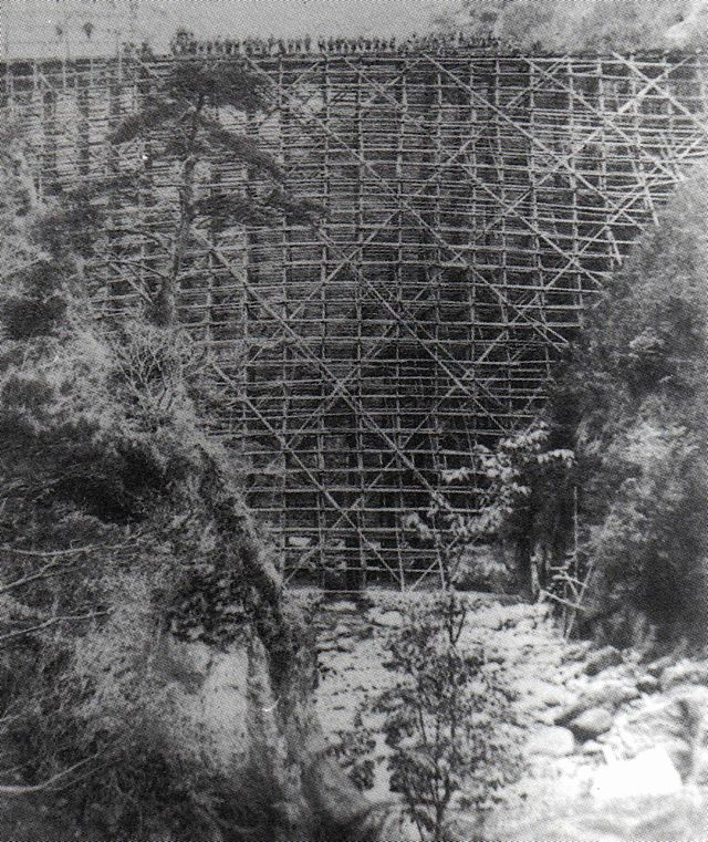 Hakone Tozan Railway Hayakawa bridge under construction